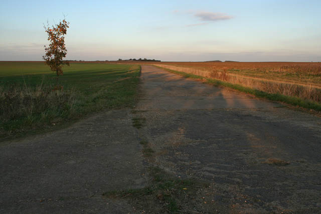 Folkingham Airfield. Old airport road leading to the modern barn in 600979. This WWII airfield was open between 1940-1963 and was originally a "decoy" site. During the day there were dummy planes and lots of activity. During the night it was a Q site or night time decoy (with dummy lighting fitted) that successfully attracted the Luftwaffe. It was redeveloped in 1943 as a proper bomber airfield. The station was later turned into Thor missile base in 1959, but finally closed when Thor missiles were taken out of service in 1963. All that remains of this are three sites with a characteristic ground signature on the Folkingham side of the airfield. These are clearly marked on the OS map at 1:25000 in TF0530.